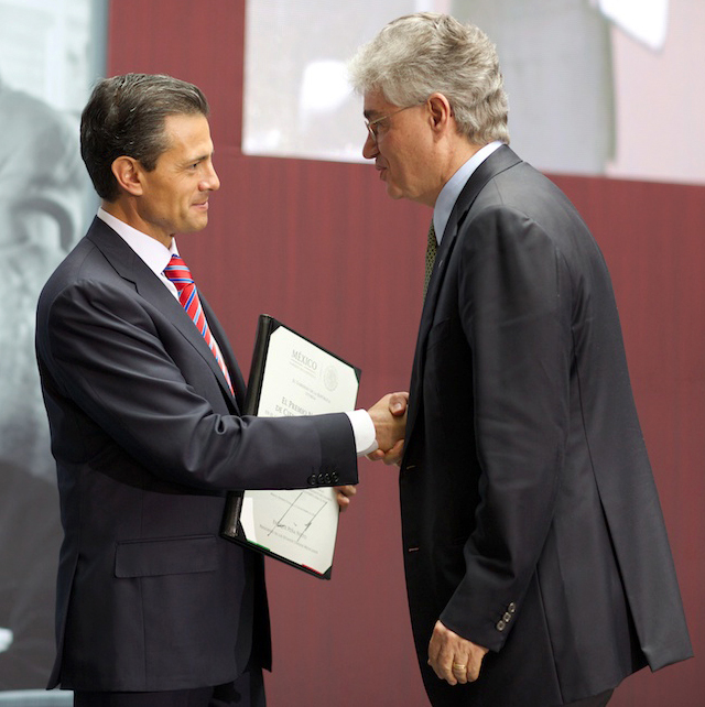 Science and Art National Prize 2013. National Palace. Mexico City. 10 December, 2013.